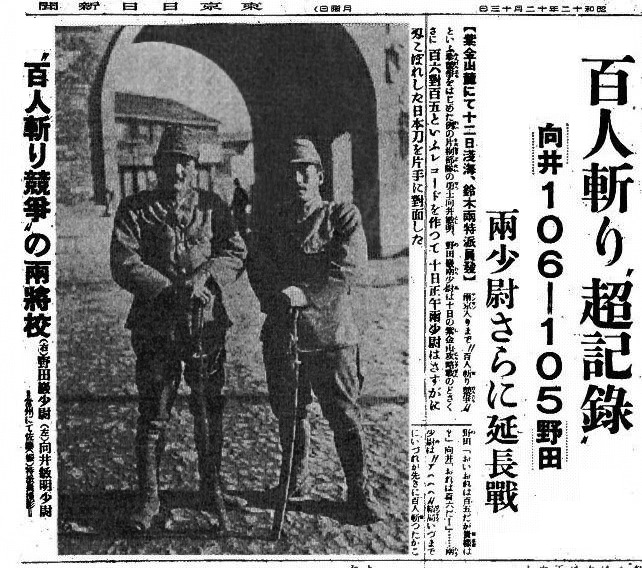 The "Contest To Cut Down 100 People" by Tsuyoshi Noda and Toshiaki Mukai. The article was written by Kazuo Asaumi and Jiro Suzuki at the foot of the Purple Mountain, the photograph was taken by Shinju Sato in Changzhou in 12 December 1937.